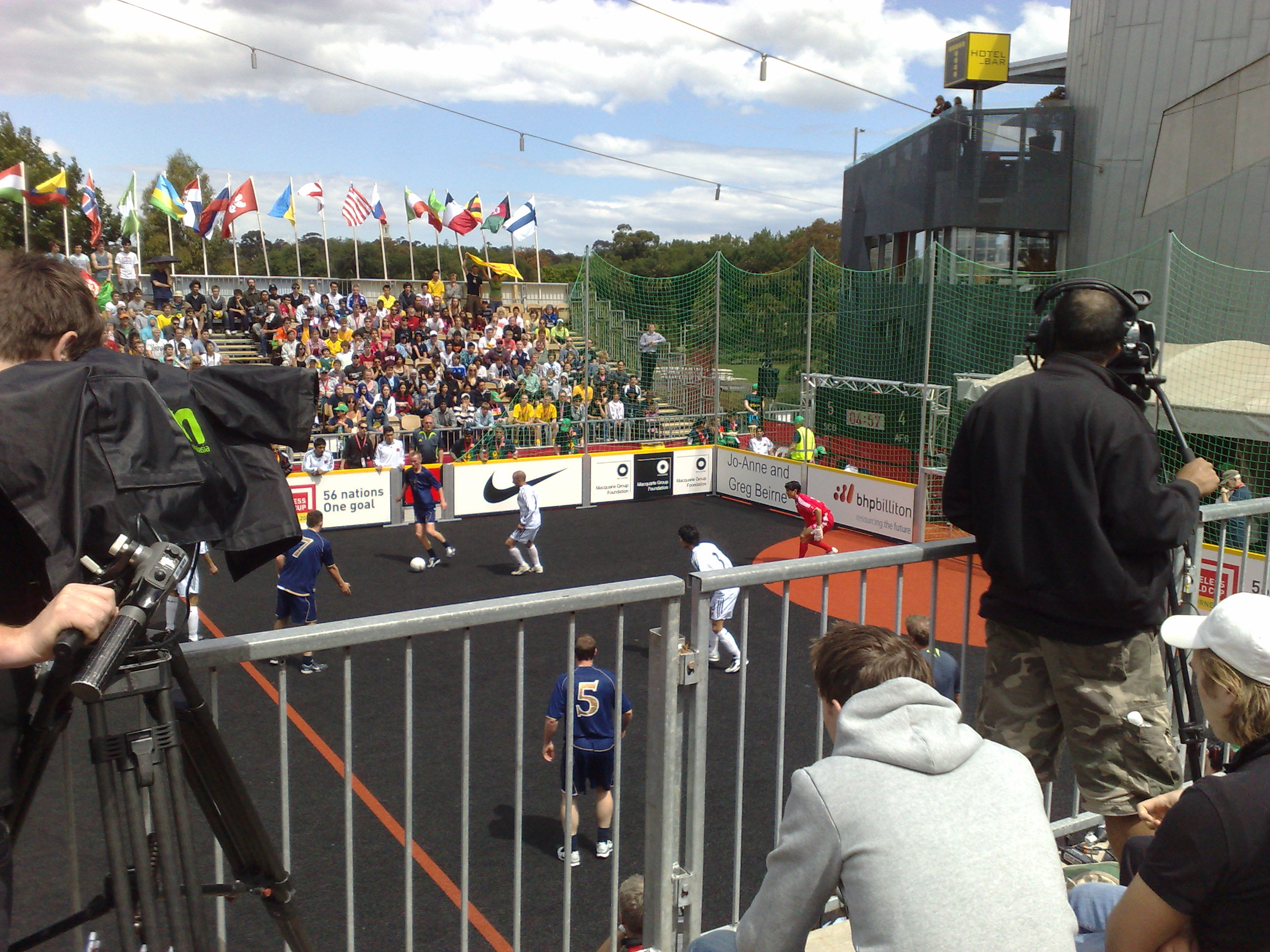 Homeless World Cup 2008 in Melbourne, Australia